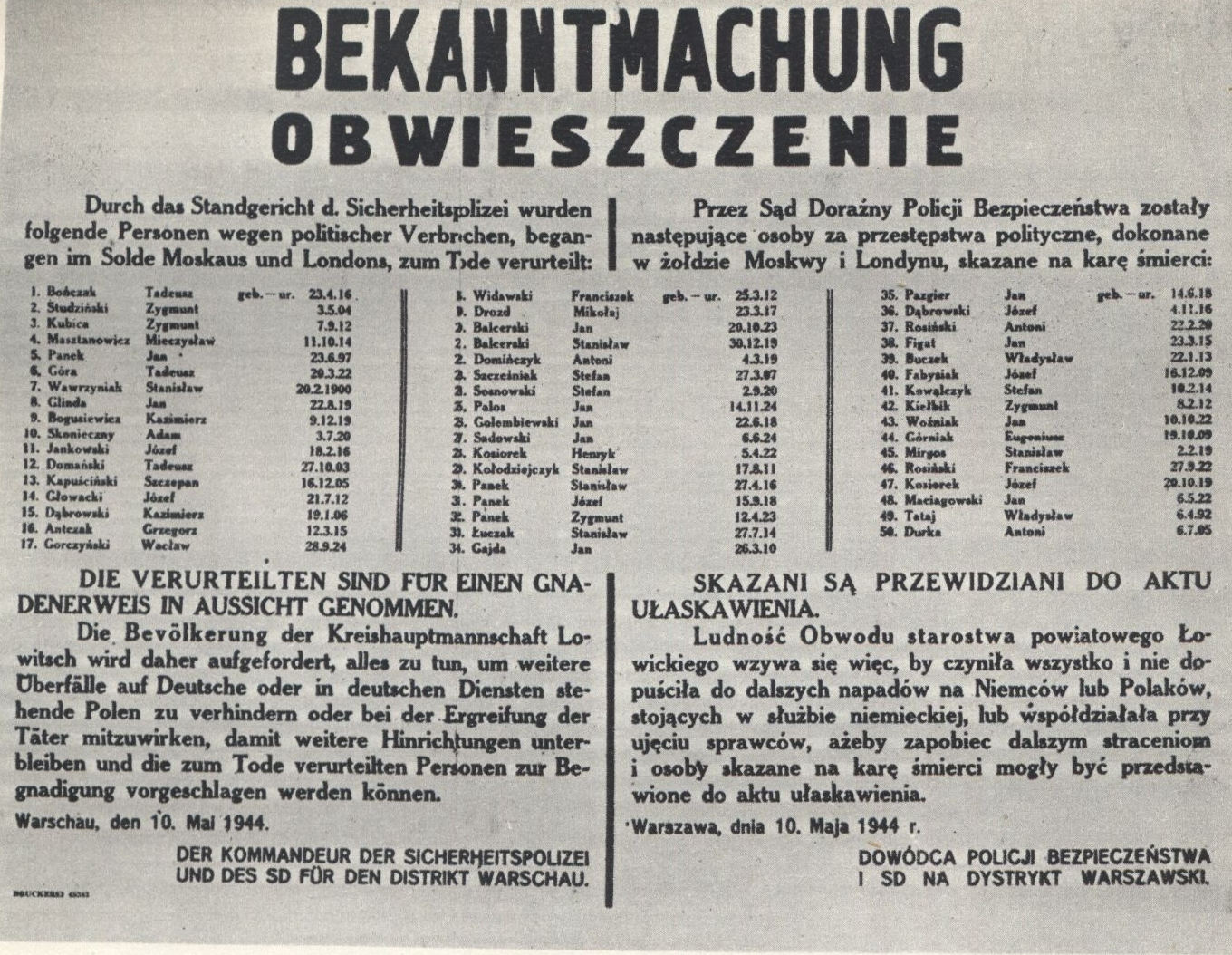 German poster in occupied Poland (dated 10th May 1944), signed by Commandant of SD and Sicherheitspolizei in Warsaw – SS-Standartenführer Ludwig Hahn, announcing death penalty for 50 Poles from Warsaw. Announcement informs that convicts will be treated as the hostages.